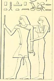 Scene of Ptahhotep and his wife Princess Khamerernebty form thier tomb in Saqqara